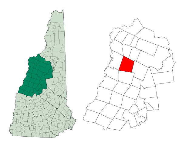 Map of a municipality in Belknap County, New Hampshire